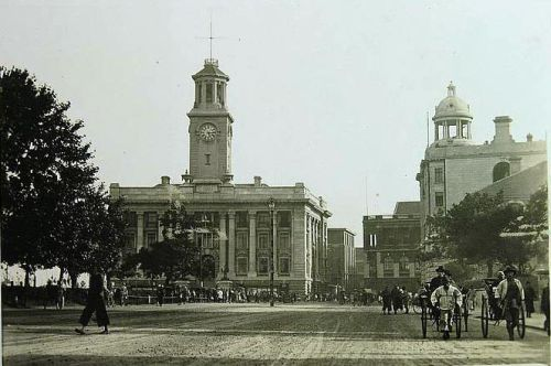 A Postcard of Wuhan Bund from 1927